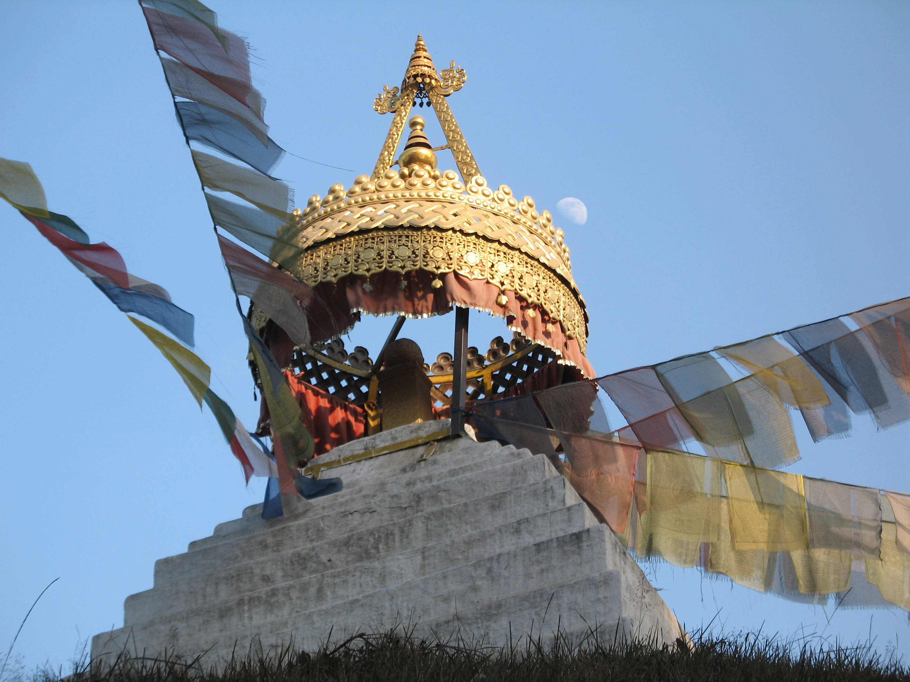 Western Stupa (Pulchowk Thura) of Patan, Nepal. This is one of the four cardinal Ashoka Stupas of Patan.